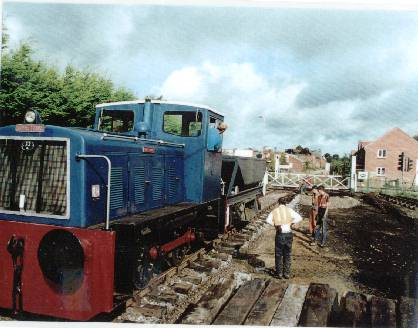 Ballast train in use during track relaying at Dereham